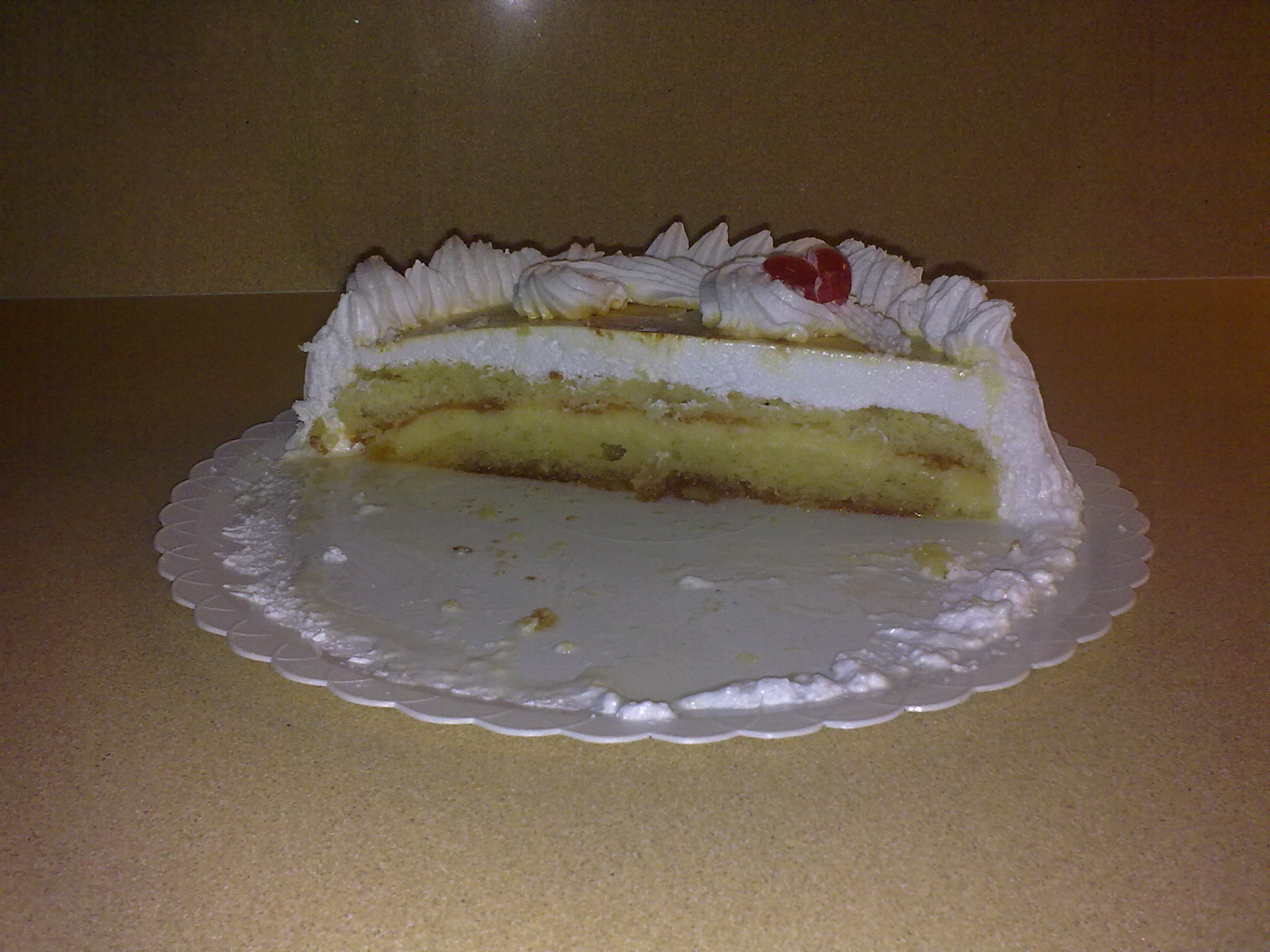 Meringue tart from Murcia (Spain)